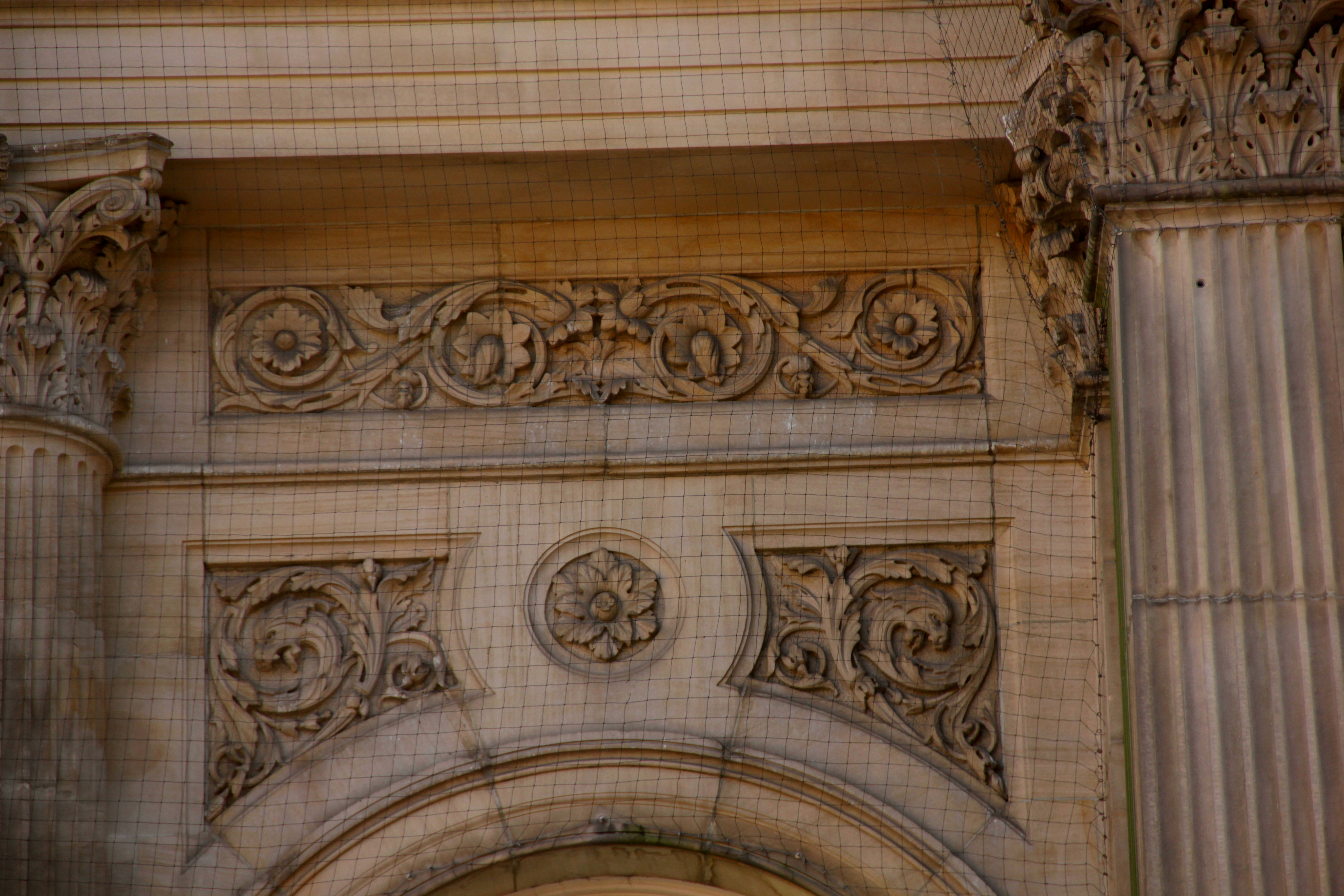 Former School Board Offices, Calverley Street, Leeds. This Grade II* listed building was designed by George Corson, and built 1878-84, although the date 1880 is carved on it, and it was opened for use in 1881. Matthew Taylor created the two sculptures of a schoolboy and schoolgirl in the entrance archway, and Benjamin Payler executed all the other stone carving. There are dragons (or perhaps fantastical sea horses) hidden in many of the spandrels and friezes carved above the ground floor windows.